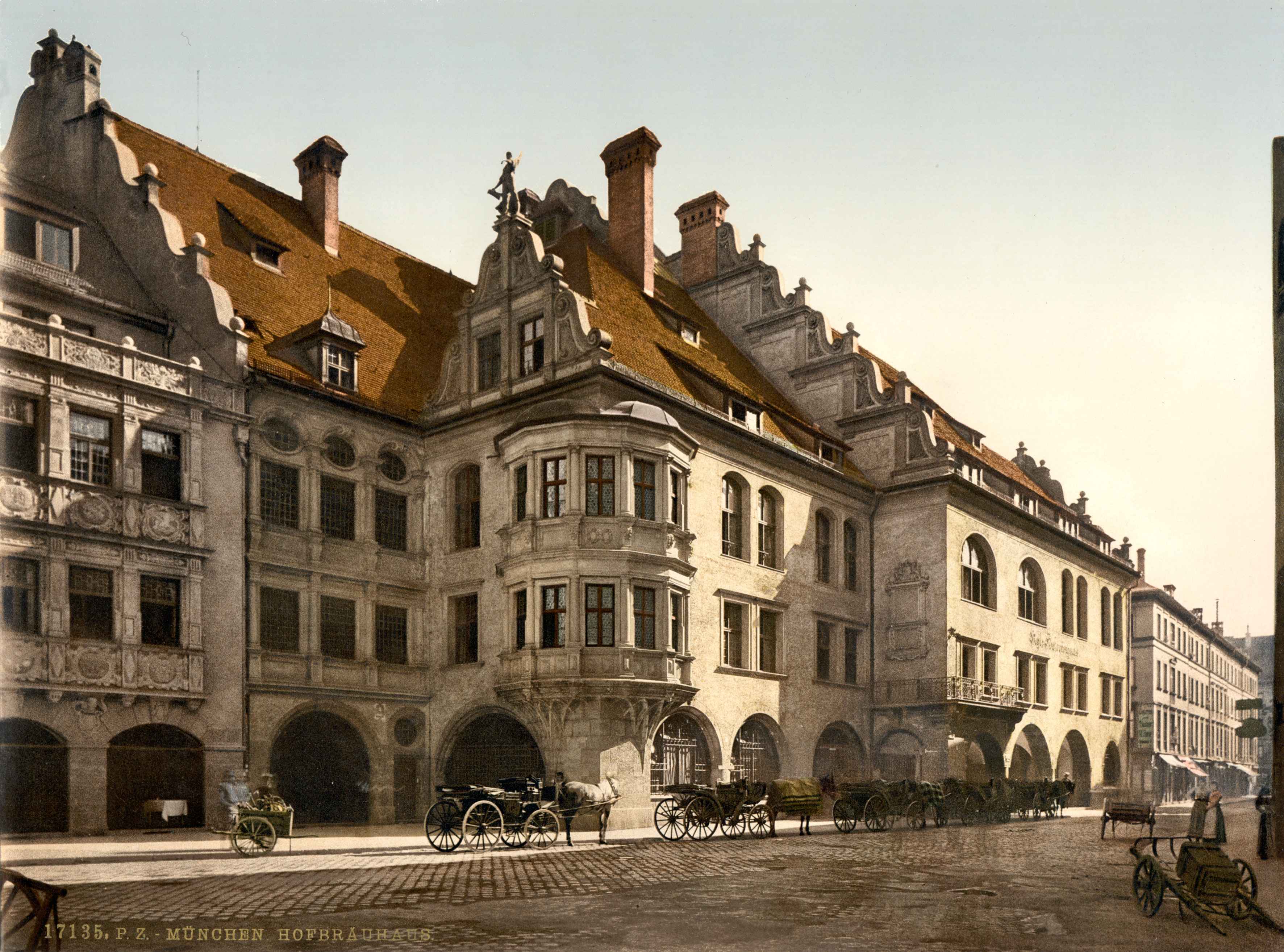 The famous Munich Hofbräuhaus, Postcard end of 19th century.